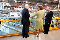 Then-Governor General Michaëlle Jean (C) visits the Canadian Light Source, with CLS Director Josef Hormes (L) and University of Saskatchewan President Peter Mackinnon (R)